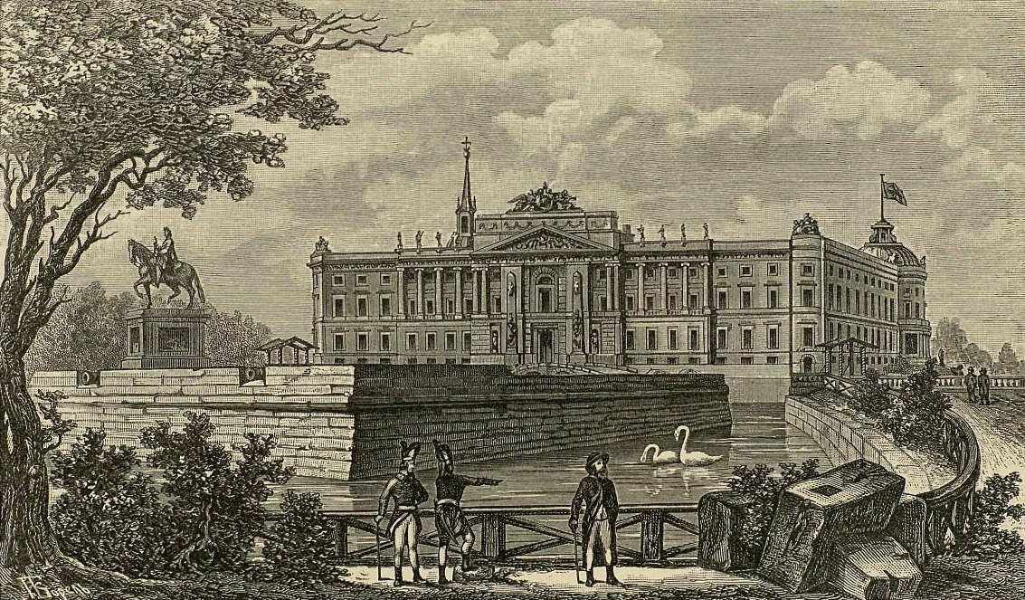 Saint Michael's Castle